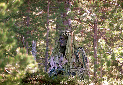 Competitor in ghillie suit